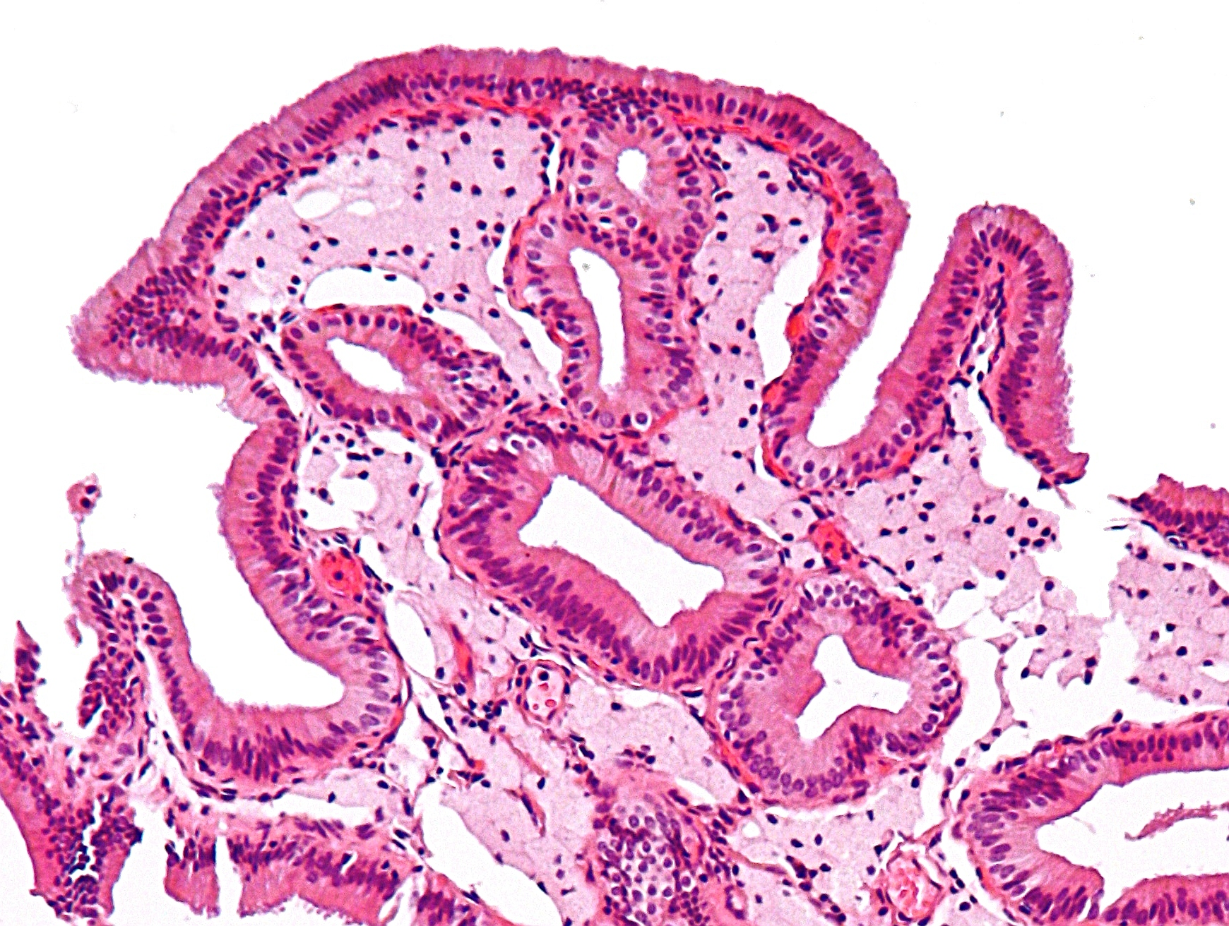 Intermediate magnification micrograph of cholesterolosis of the gallbladder. Cholecystectomy specimen. H&E stain. Dead lipid laden macrophages (foam cells) are seen in the finger-like projections into the gallbladder lumen. It should be apparent that this is gallbladder, as no muscularis mucosae is present (as elsewhere in the gastrointestinal tract). The blood vessels are congested and the subserosa edematous. Cholesterolosis is often associated with cholecystitis. See also Image:Gallbladder cholesterolosis low mag.jpg Image:Gallbladder cholesterolosis intermed mag.jpg - uncropped version of this image Another case: Image:Gallbladder cholesterolosis micro.jpg